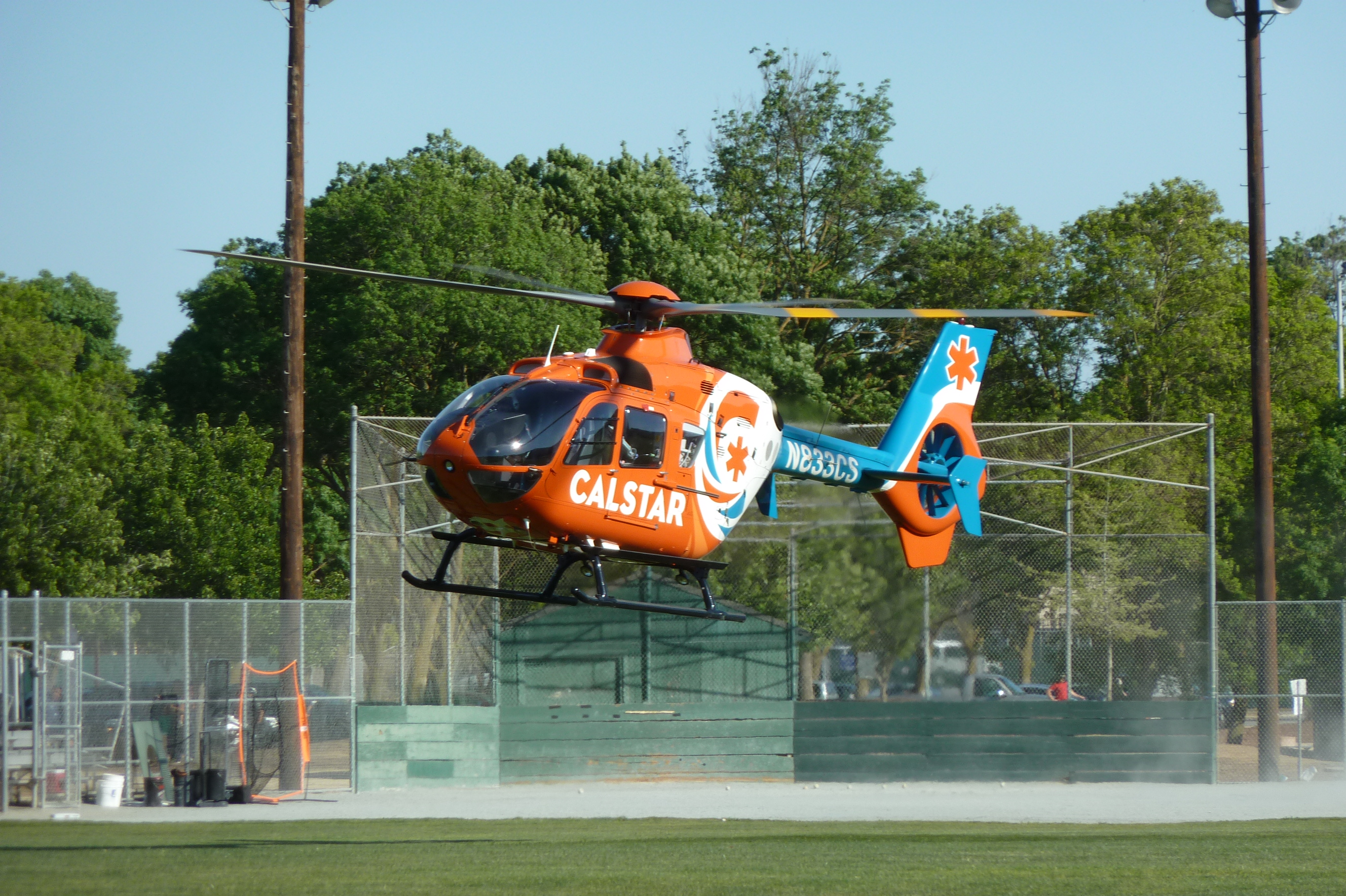 CALSTAR EC 135 helicopter (U.S. registration number N833CS) engaged in medical evacuation operation in Morgan Hill Community Park, Morgan Hill, California. This aircraft operates from Saint Louise Regional Hospital in Gilroy, California and primarily serves the Santa Clara Valley and south San Francisco Bay region. The aircraft executes a maximum performance takeoff with a patient on board.